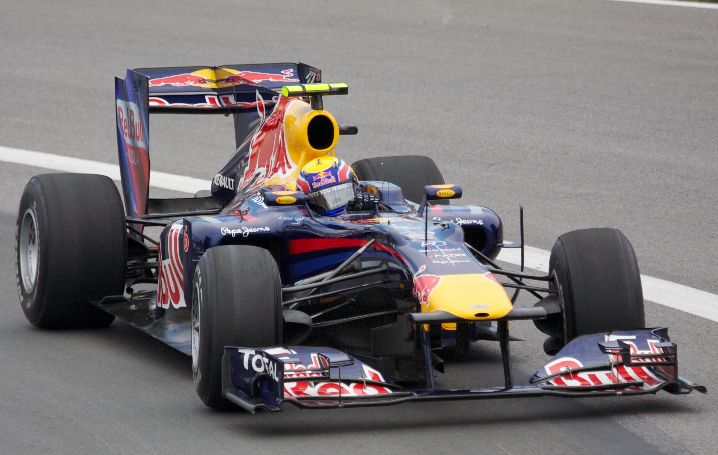 Mark Webber at the Canadian GP